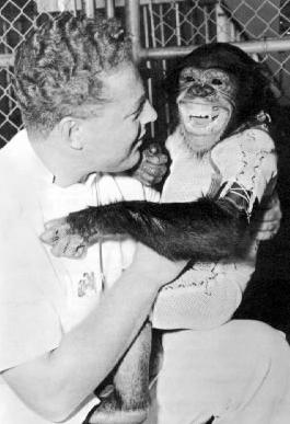 Ham the Chimp with handler.